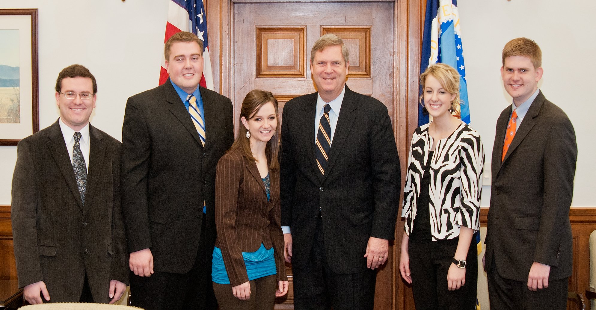 Agriculture Secretary Tom Vilsack met with the Past National Officers of the Future Farmer’s of America (FFA) at the U. S. Department of Agriculture (USDA) in Washington, D. C., on Monday, December 19, 2011. (L to R) Past National Secretary from Colorado Landon Schaffert, Past National Vice President from the Central Region, South Dakota Wyatt DeJong, Past National Vice President from the Western Region, New Mexico Shannon Norris, Agriculture Secretary Tom Vilsack, Past National Vice President from the Eastern Region, Michigan Tiffany Rogers, and Past National Vice President from the Eastern Region, Oklahoma Riley Pagett. Photo by USDA photographer Bob Nichols.